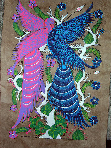 Citlalli Arreguín individual exhibition at Garros Galería